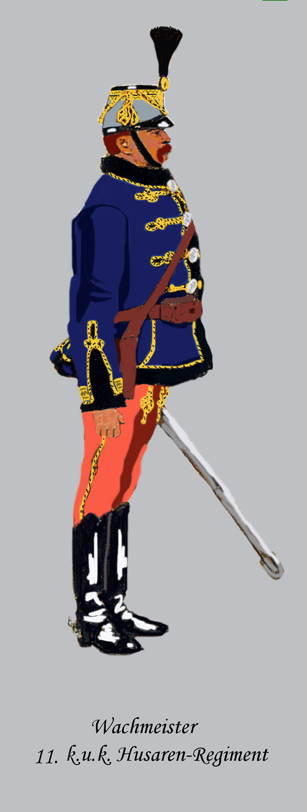 Winter-style Uniform of an Wachtmeister (Master-Sergeant) of the Austro-Hungarian 11th Hussars Regiment – worn until about 1916